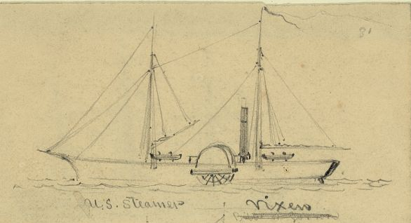 Sketch of: U.S. Steamer Vixen, U.S. Gun Boat Curlew, [and] U.S. Gun Boat "Pochahontas"